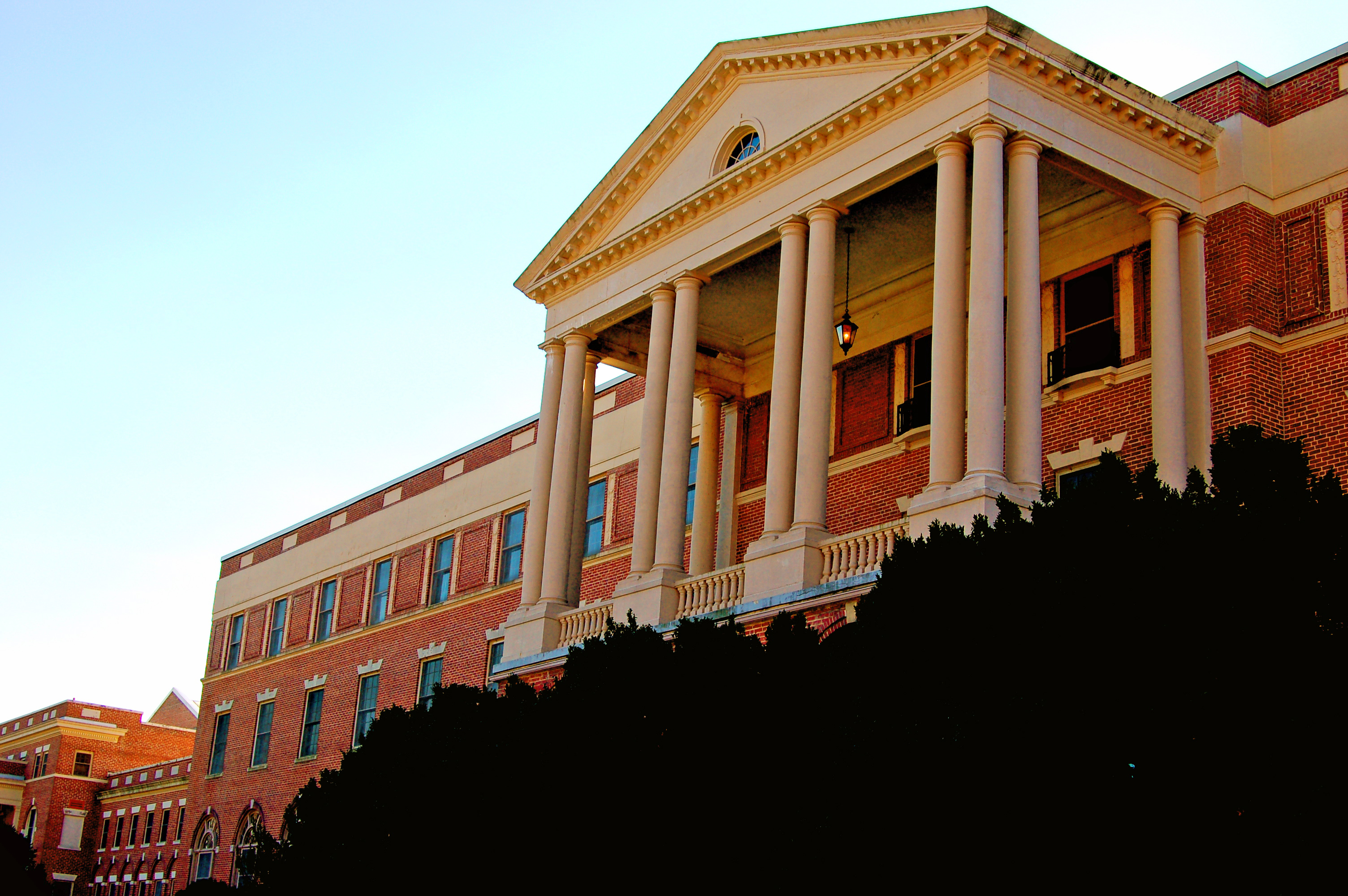 Photo of former Blackstone College for Girls, current Virginia United Methodist Assembly CenterBlackstone College